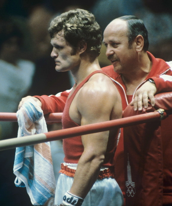 “Boxer Viktor Savchenko”. Viktor Savchenko, silver winner of the Olympic Games in a final boxing round (-75kg). The 22nd Olympic Games. July 19 - August 3, 1980.